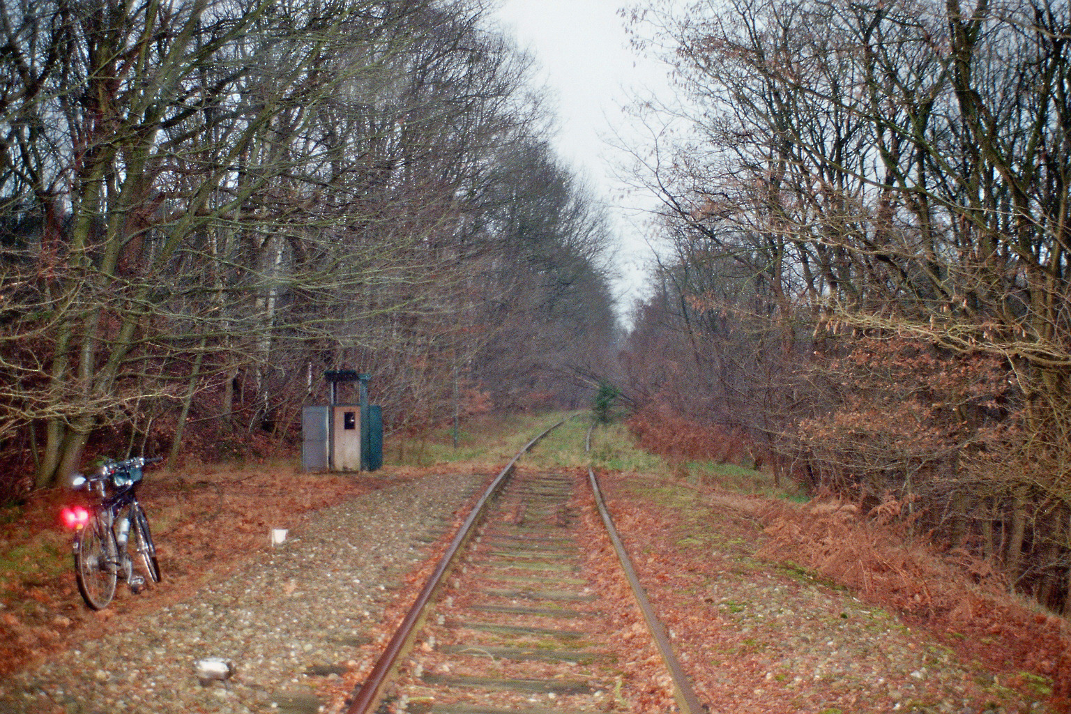 The Iron Rhine at the frontier between Germany and the Netherlands